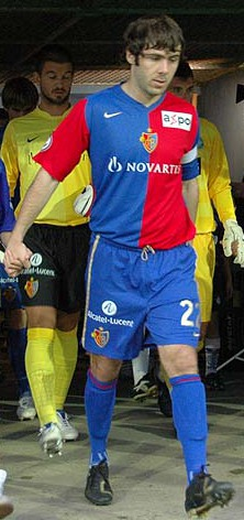 Steven Pressley of Celtic FC and Ivan Ergić of FC Basel.